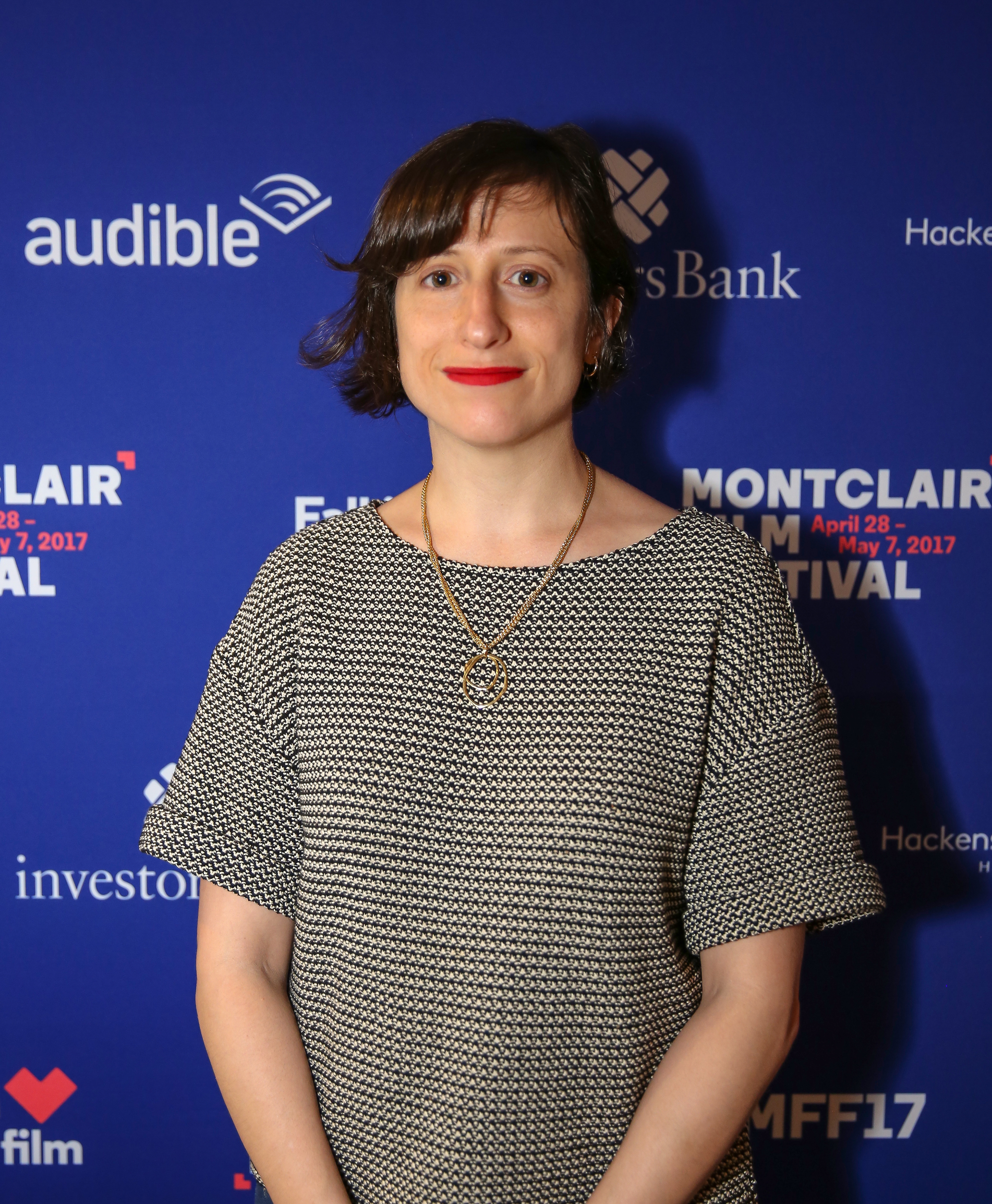 Eliza Hittman photo by "Frank Schramm / Montclair Film"